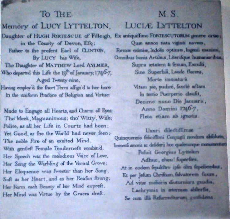 Hagley, St John the Baptist Church - interior, memorial to Lucy Lyttelton née Fortescue (* c.1717; † 1747), the first wife of George Lyttelton, 1st Baron Lyttelton (* 1709; † 1773).